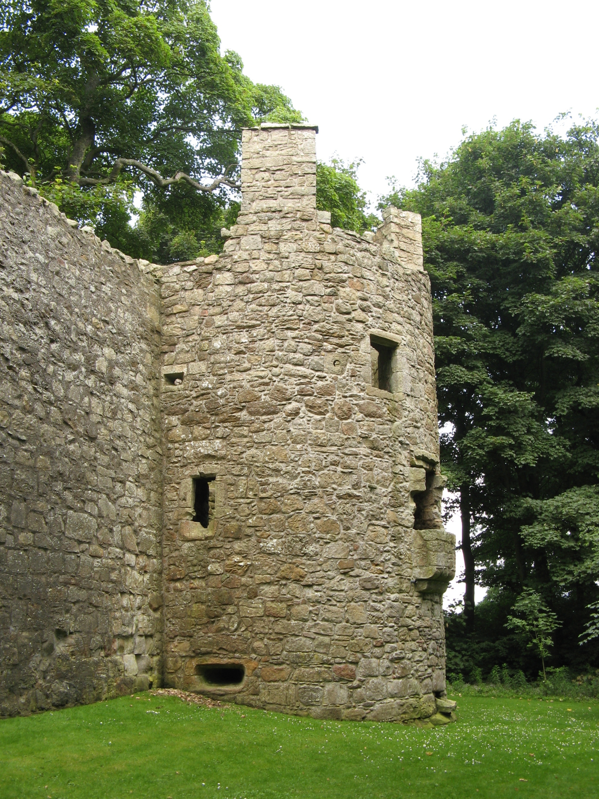 Lochleven Castle, Kinross, Scotland. The 16th century Glassin Tower.